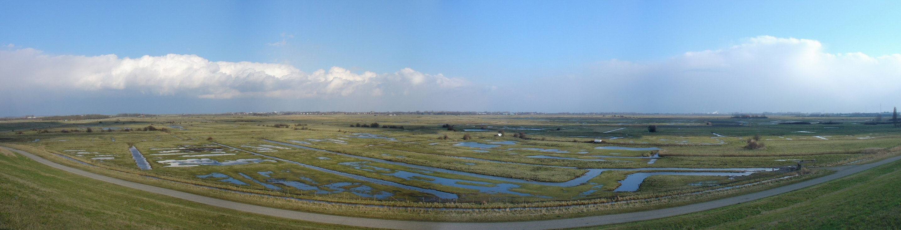 Made on 11 march 2006 by myself. Camera Sony DCS V1.